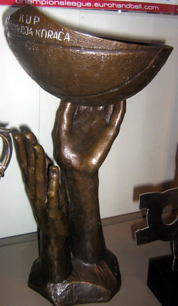 Copa Korać conquistada por el FC Barcelona